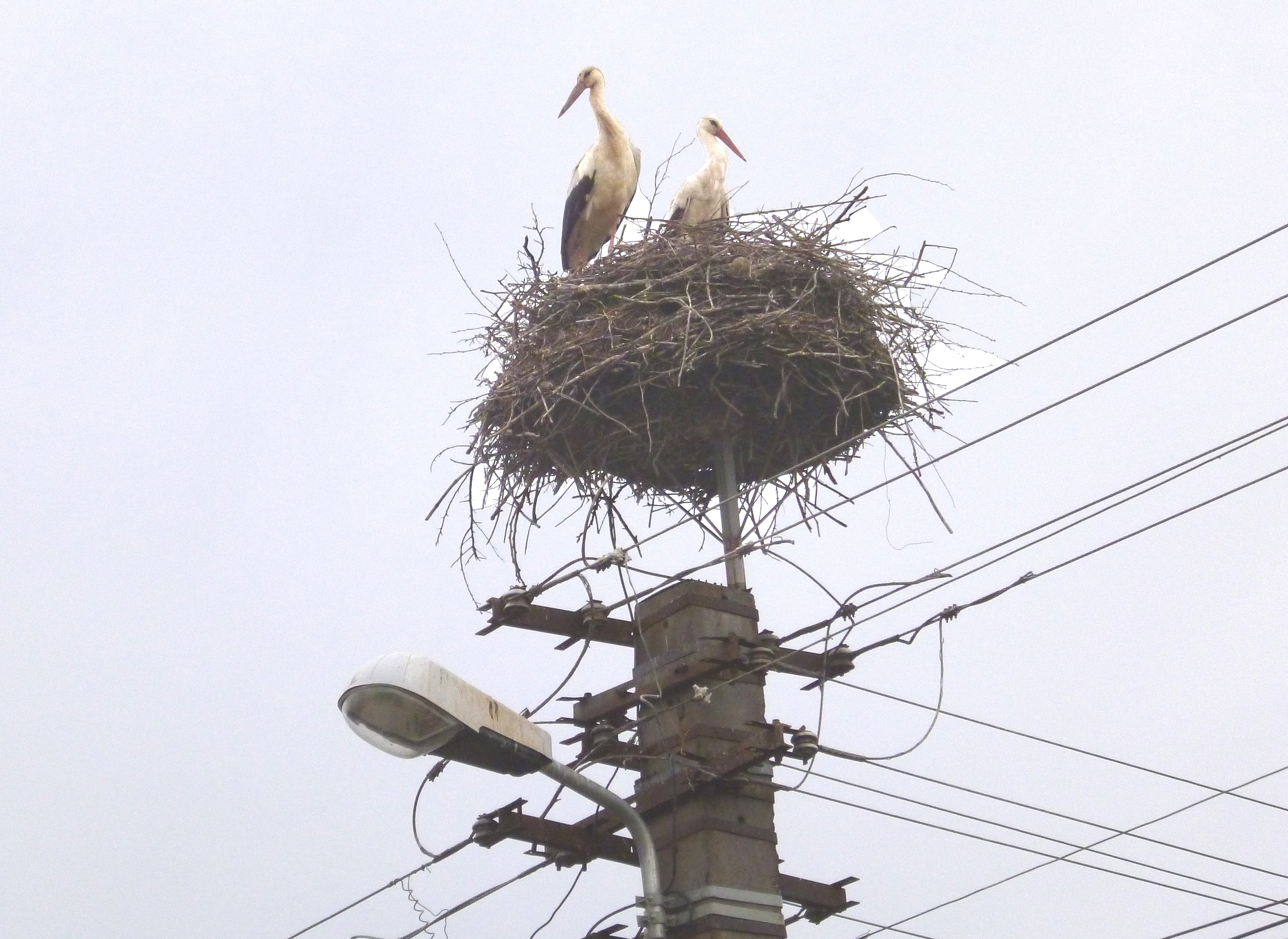 Pair of storks on a power pole in Billed - April 2012